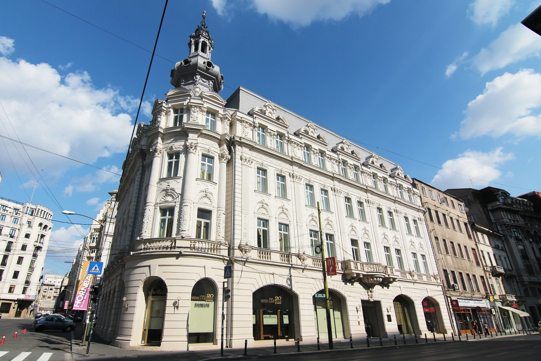 Grand Hotel Continental, at Calea Victoriei 56, Bucharest 010083, Romania, on the intersection with Strada Ion Câmpineanu.